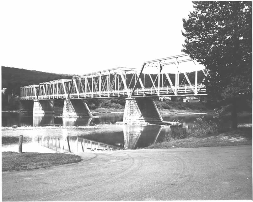 Side of the West Hickory Bridge, which once carried Legislative Route 598 over the Allegheny River at West Hickory in Harmony and Hickory Townships of Forest County, Pennsylvania, United States. Built in 1896, the bridge is listed on the National Register of Historic Places. It has been demolished and replaced by a new concrete structure.